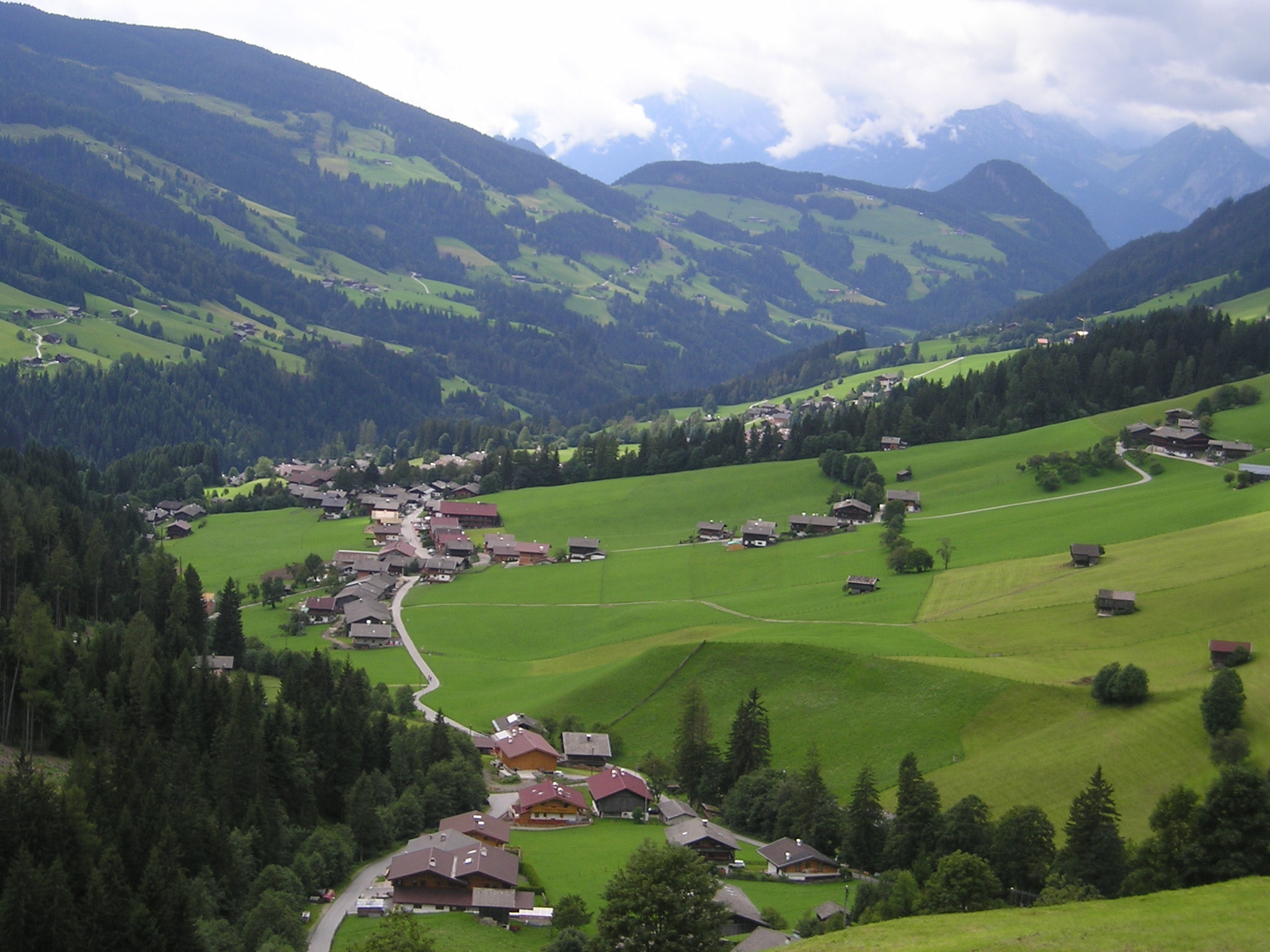 valley of the Alpbach in Tirol, Austria. Besides some houses of the small town Alpbach you see the foot of the mountain Wiedersberger Horn and more far away another small mountain, the Reither Kogl.